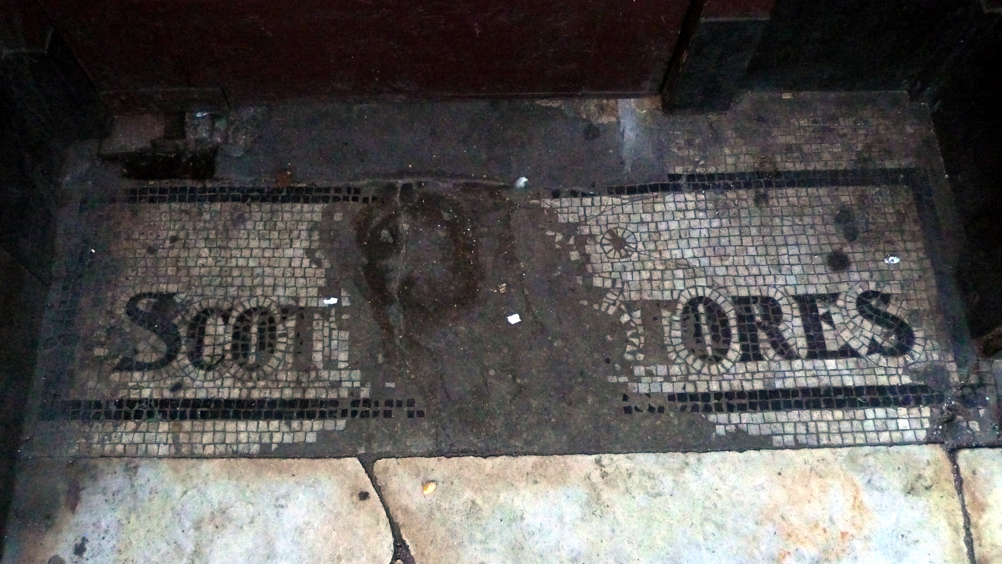 A sad sight on this run-down strip pub near King's Cross. The tiling betrays its former identity as The Scottish Stores, though it's now called The Flying Scotsman. (View of building.)